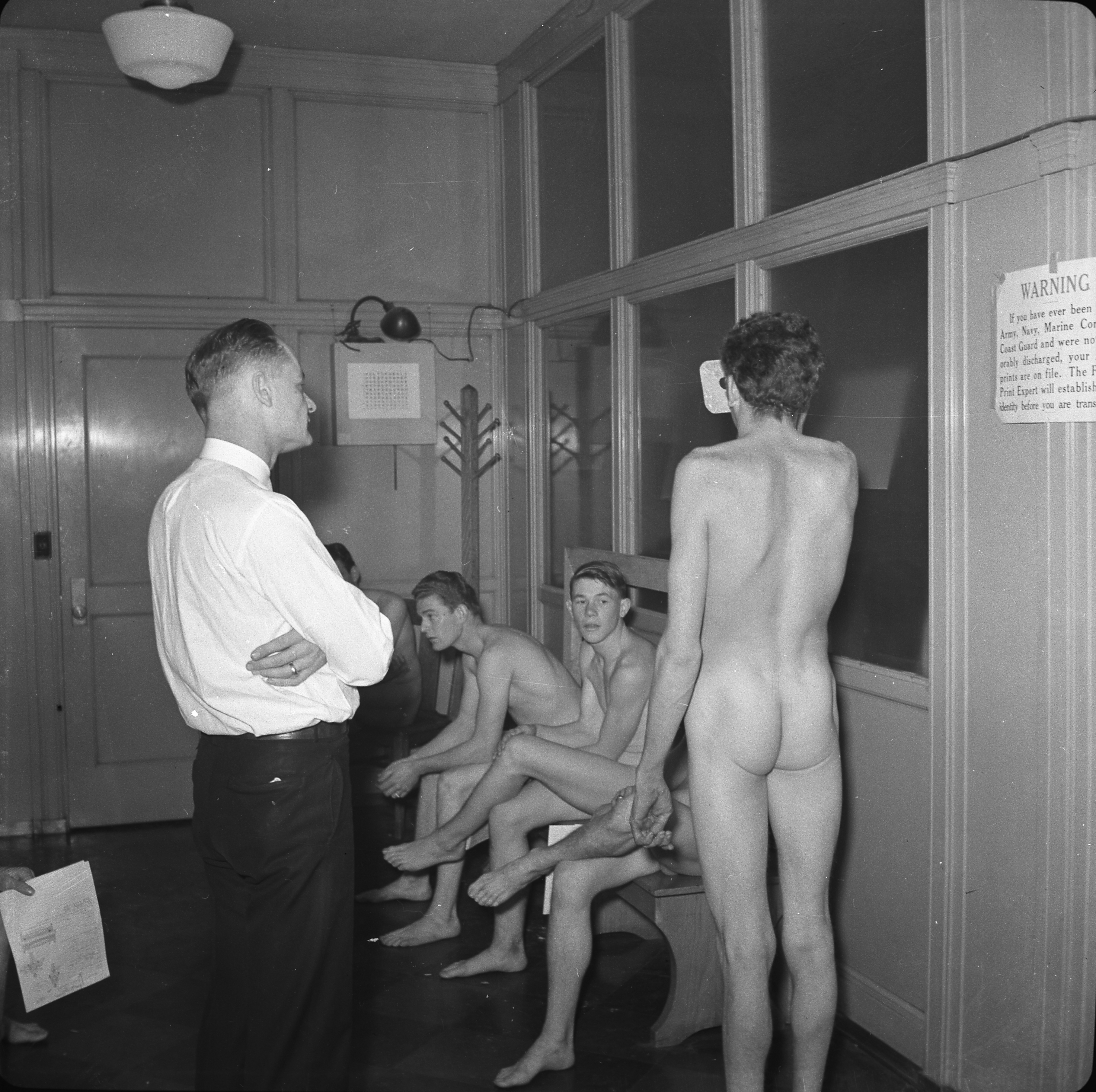 Enlisting in the Marines. Recruiting office. San Francisco, California. Dec. 1941.